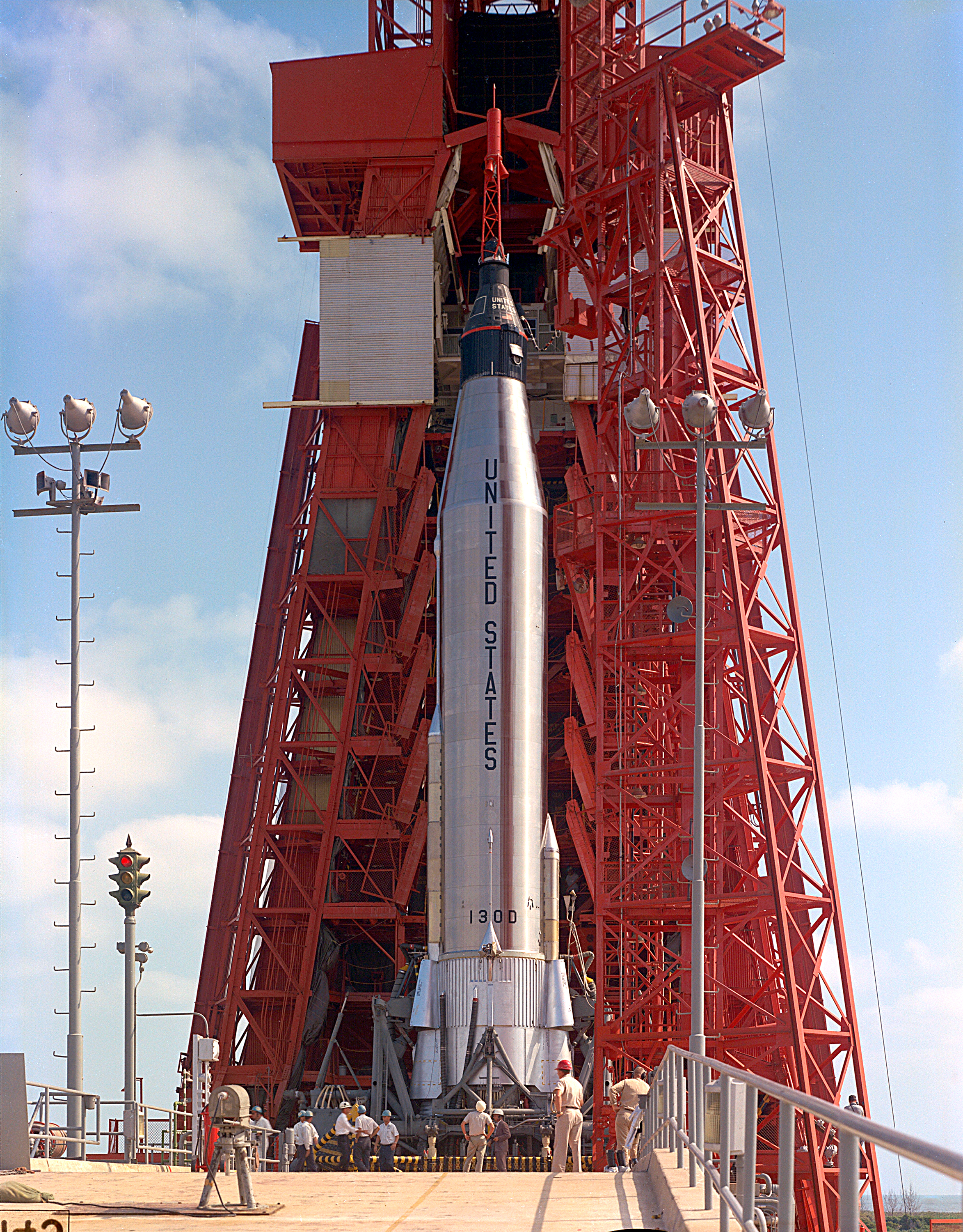 Pre-launch test of the Mercury-Atlas 9 (MA9) on Launch Pad 14 at Cape Canaveral, Florida.